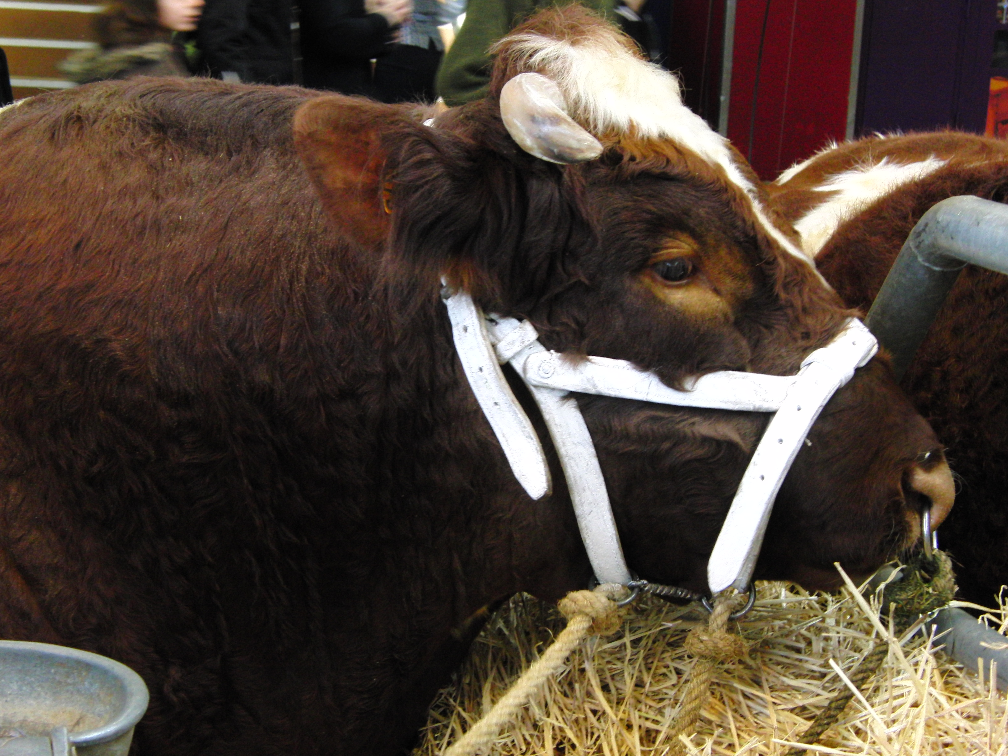 Rouge des prés bull - Paris International Agricultural Show 2012, Paris, France